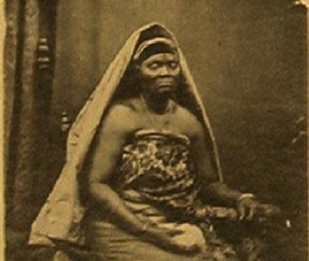 Madam Tinubu (c. 1810 – 1887), Nigerian businesswoman